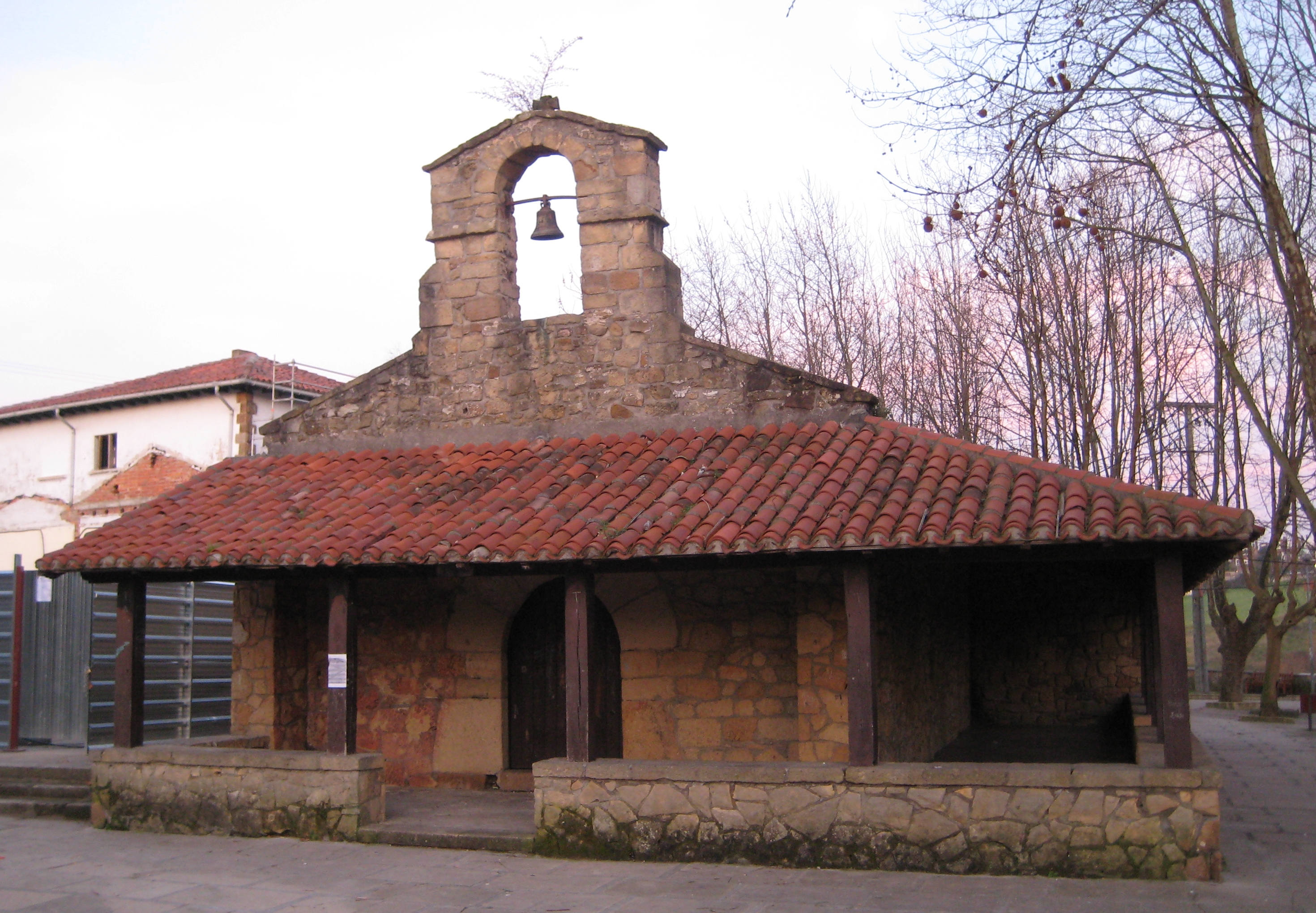 2008-01-20 Hermitage of Saint Bartholomew in Basaez, Leioa, Biscay, Basque Country, Spain.